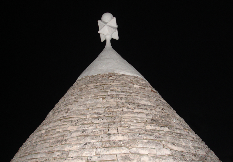 In Alberobello, province of Bari, Italy, on top of a trullo a carved pinnacle in the form of a polyhedron topped by a small ball.